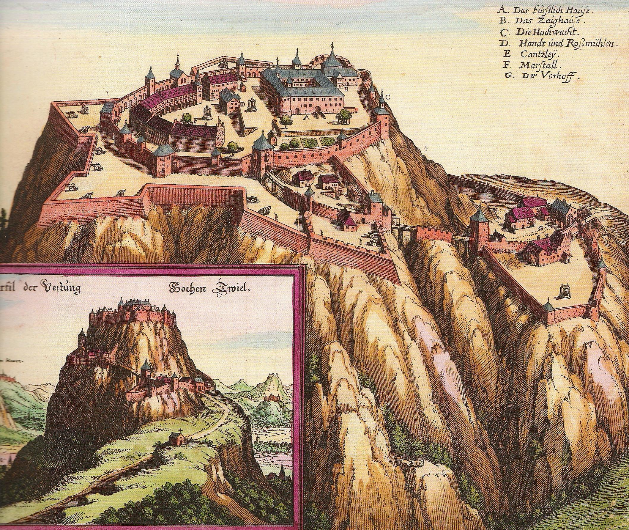 Castle Hohentwiel in southern germany, near Lake Constance.